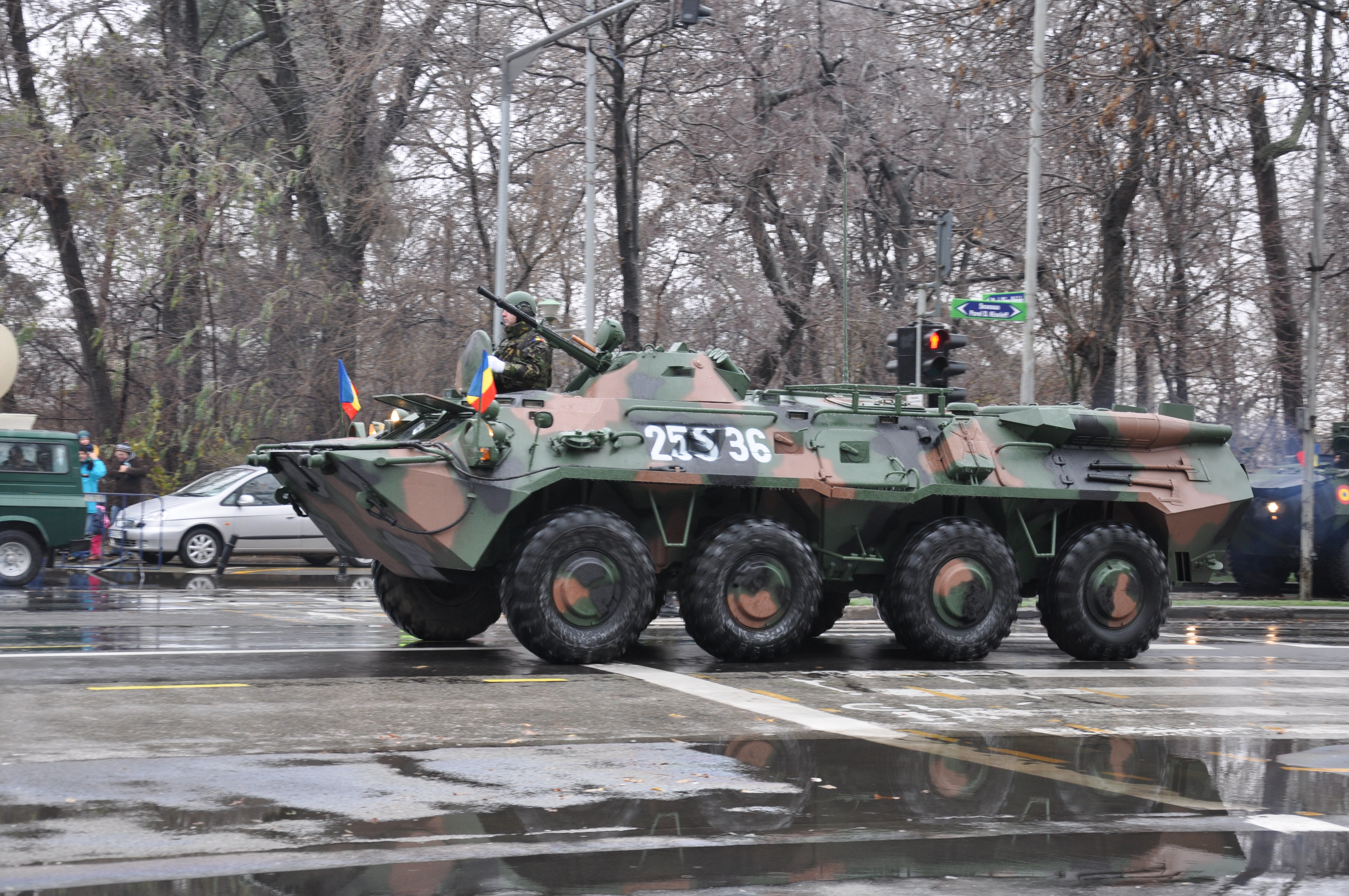 Romanian APC TAB B-33 Zimbru at National Day Parade, 2010